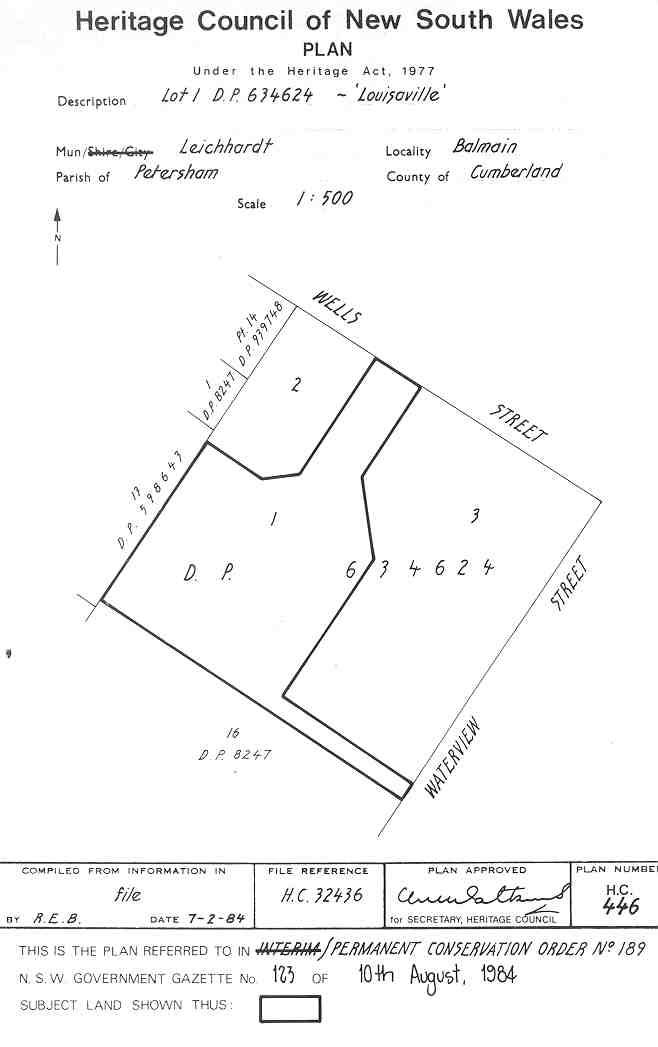 Louisaville: PCO Plan Number 189